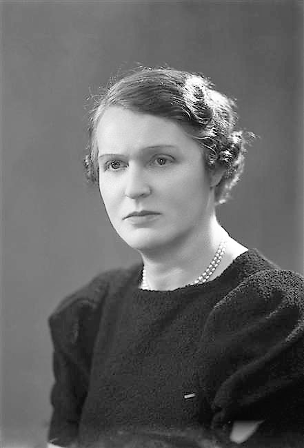 Studio photo